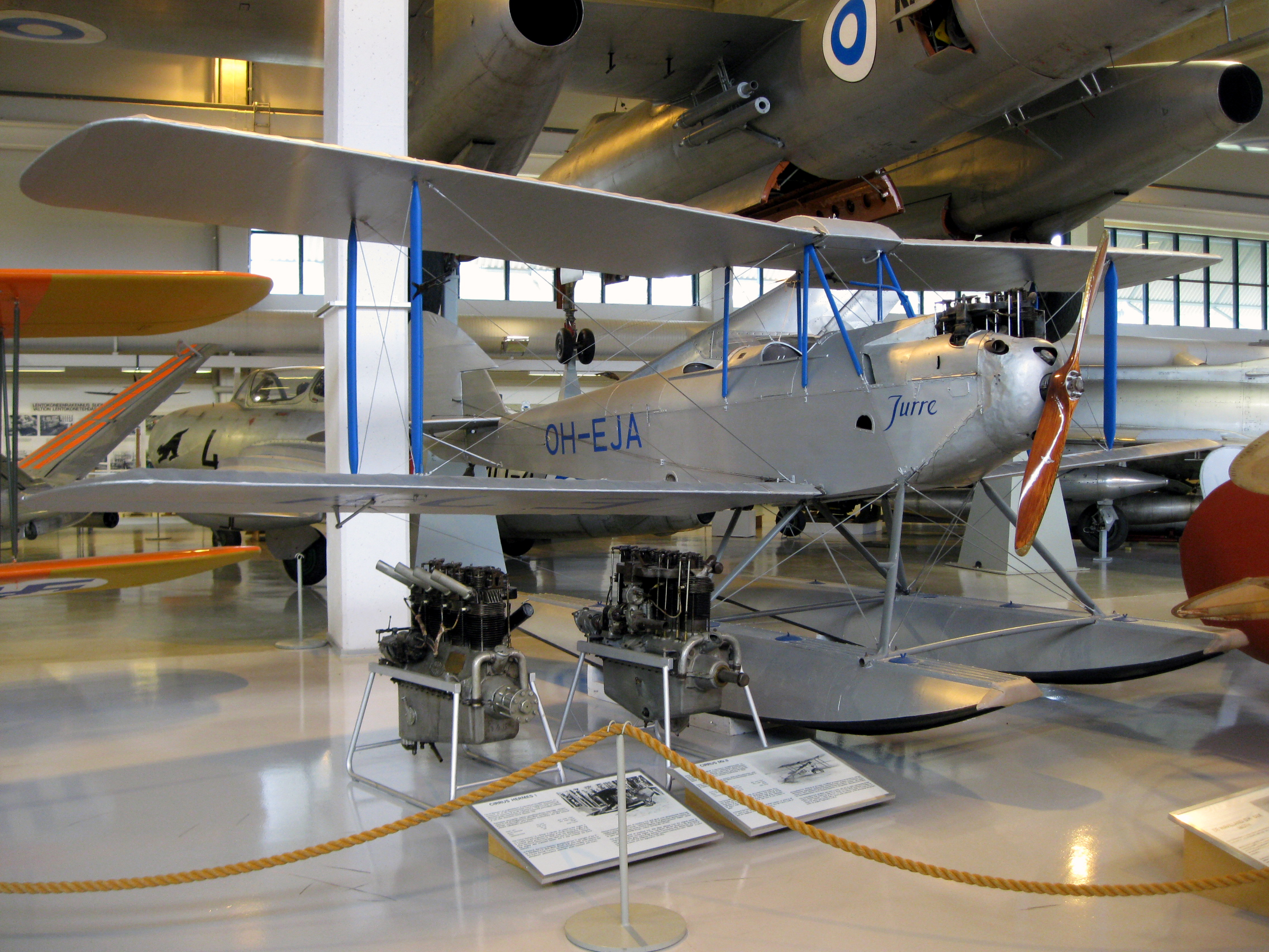 De Havilland D.H.60X (OH-EJA, "Jurre") in Aviation Museum of Central Finland.